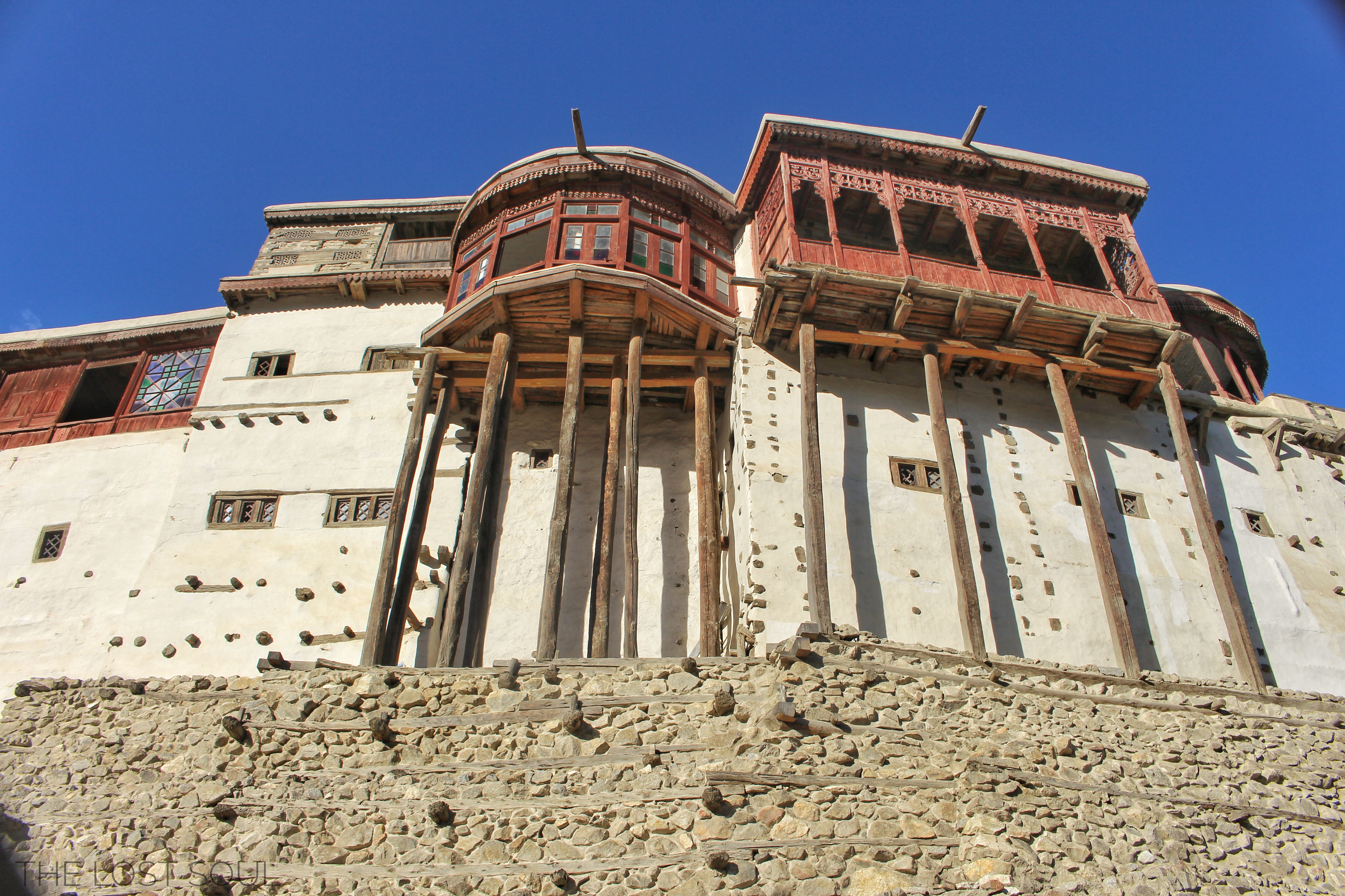 Baltit Fort This is a photo of a monument in Pakistan identified as the GB-15